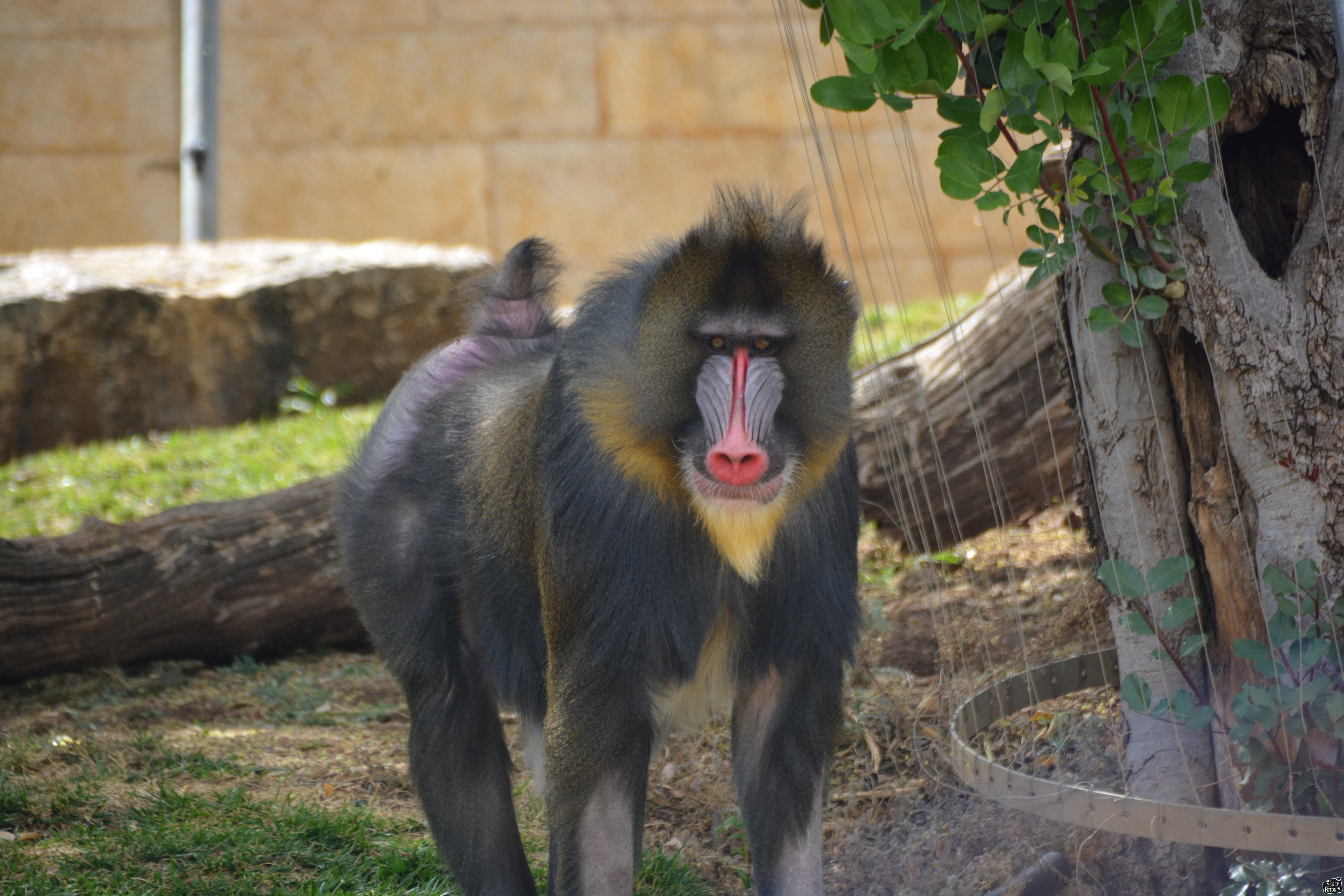 Biblical Zoo in Jerusalem